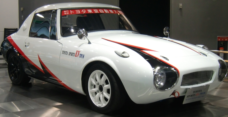 Toyota Sports 800 Electric Vehicle